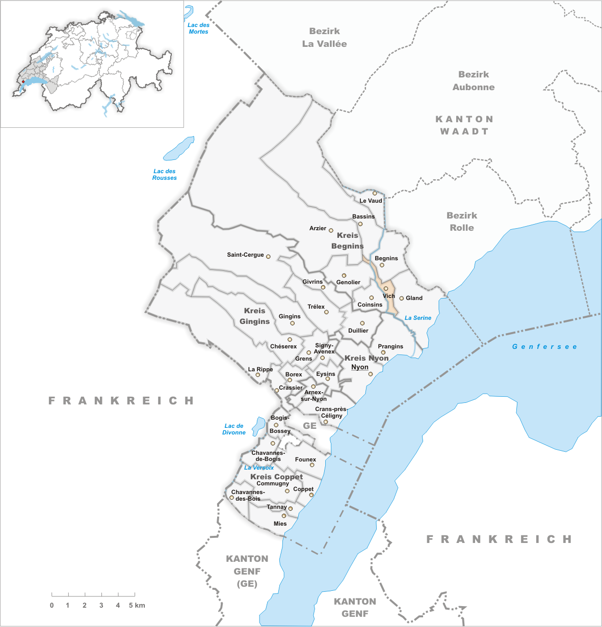 Municipality Vich